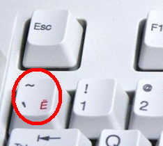 Backquote - Grave accent